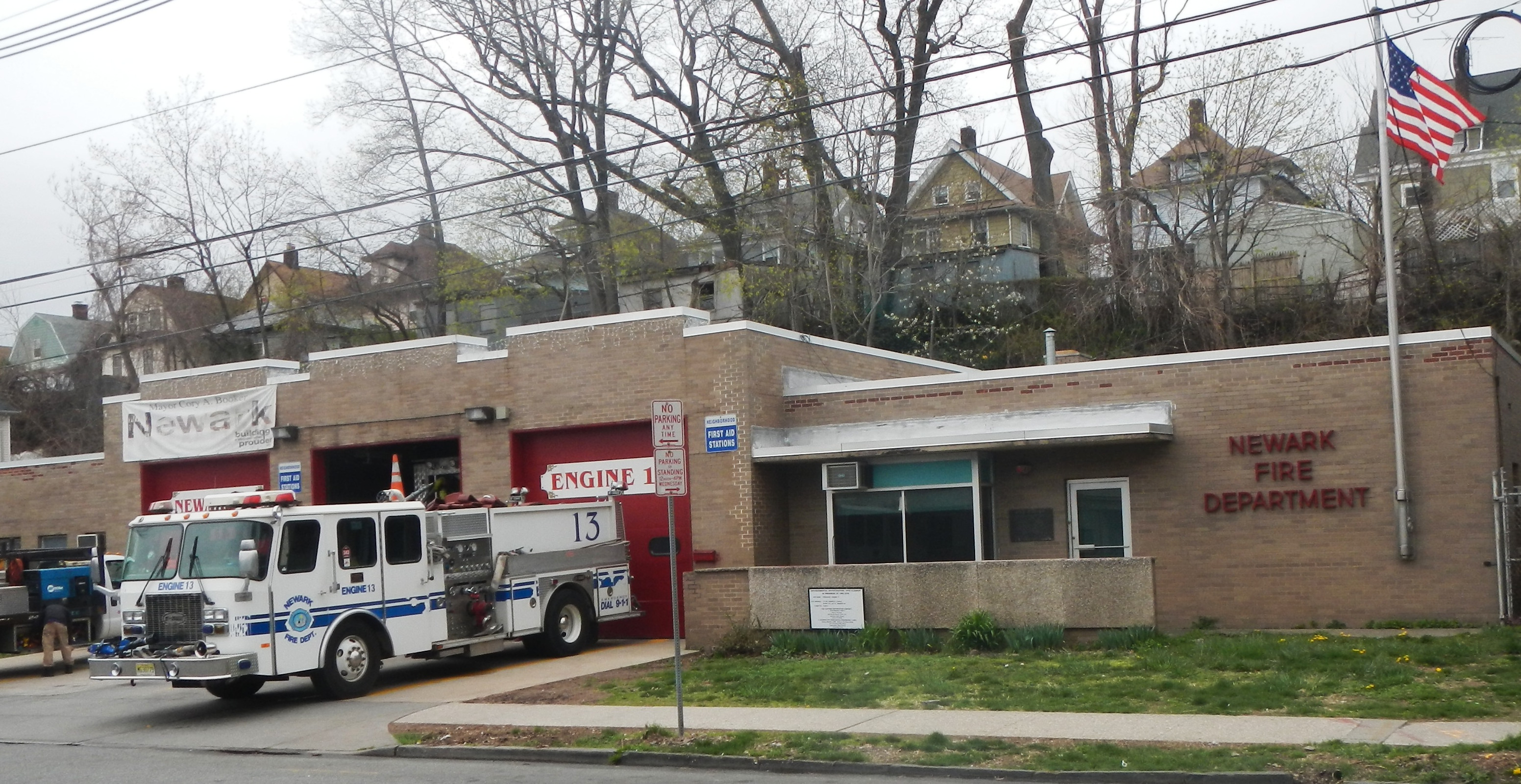 Looking west at Engine 13.